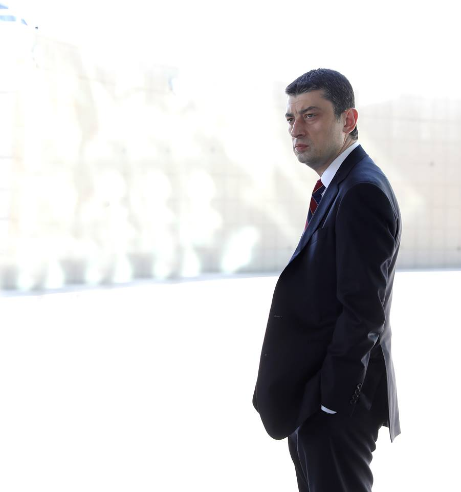 Georgian politician, Vice Prime Minister and Minister of Internal Affairs of Georgia - Giorgi Gakharia.